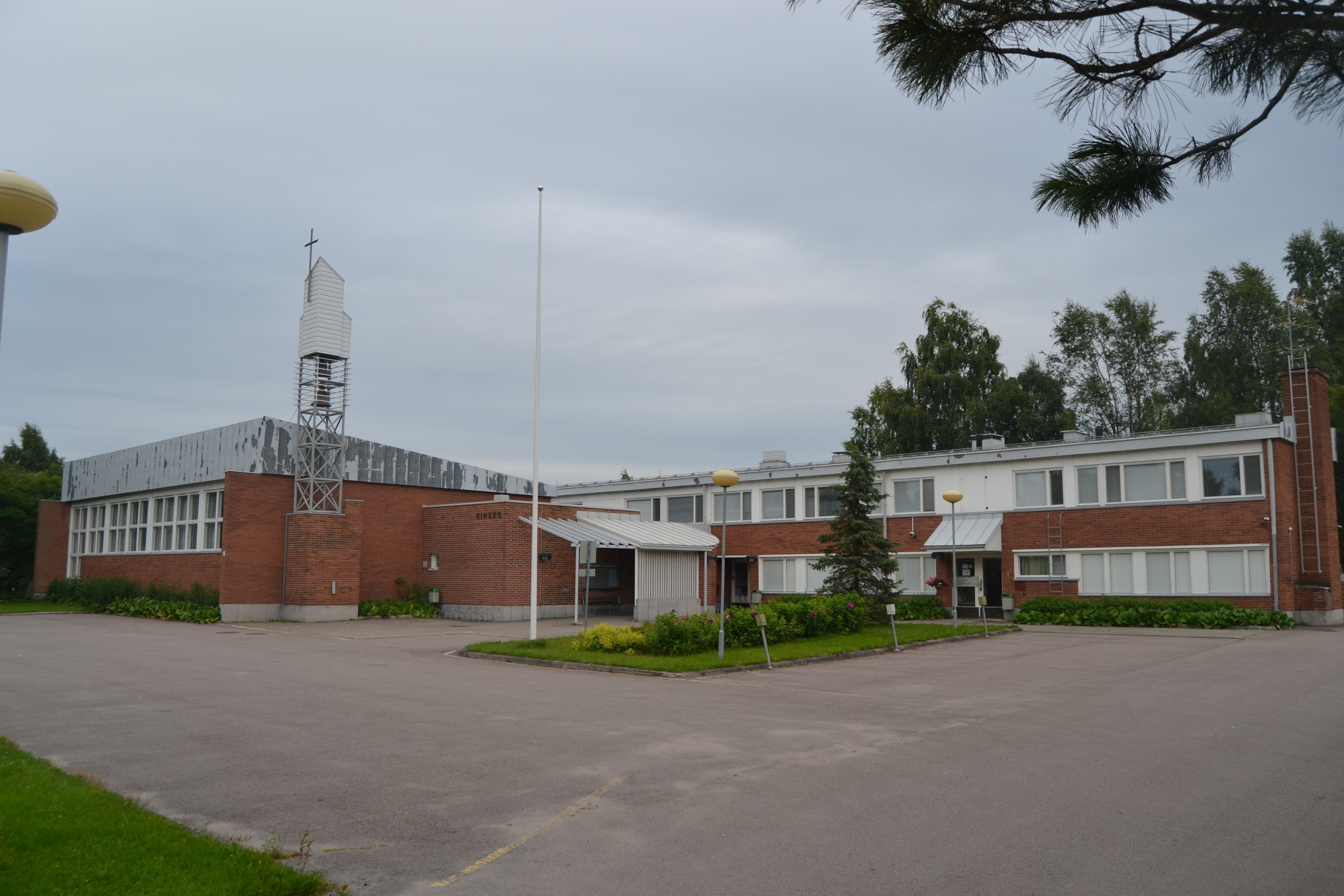 Pyhäsalmi Church in Pyhäjärvi, Finland